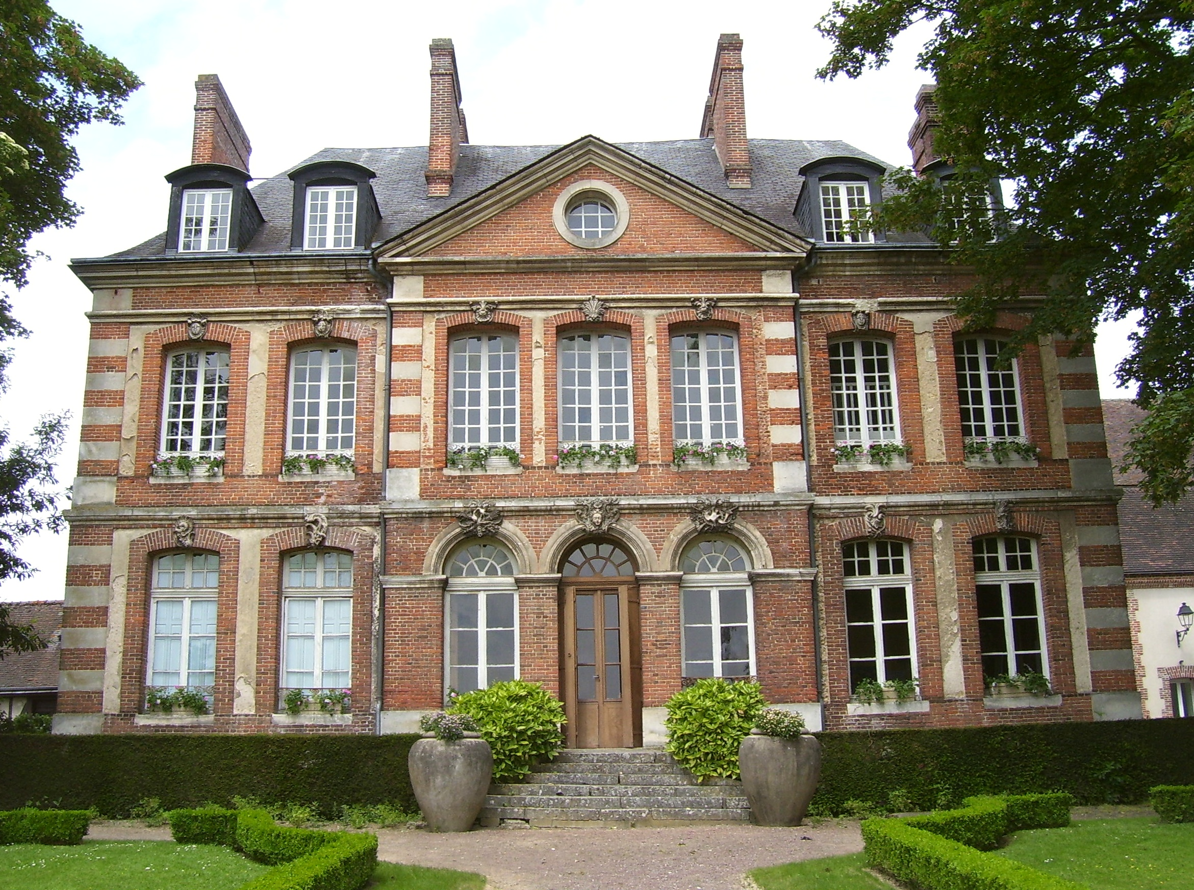 Hôtel de la gabelle (house of the salt tax) in Bernay. It was built in 1750 by Bréant and Ange-Jacques Gabriel.